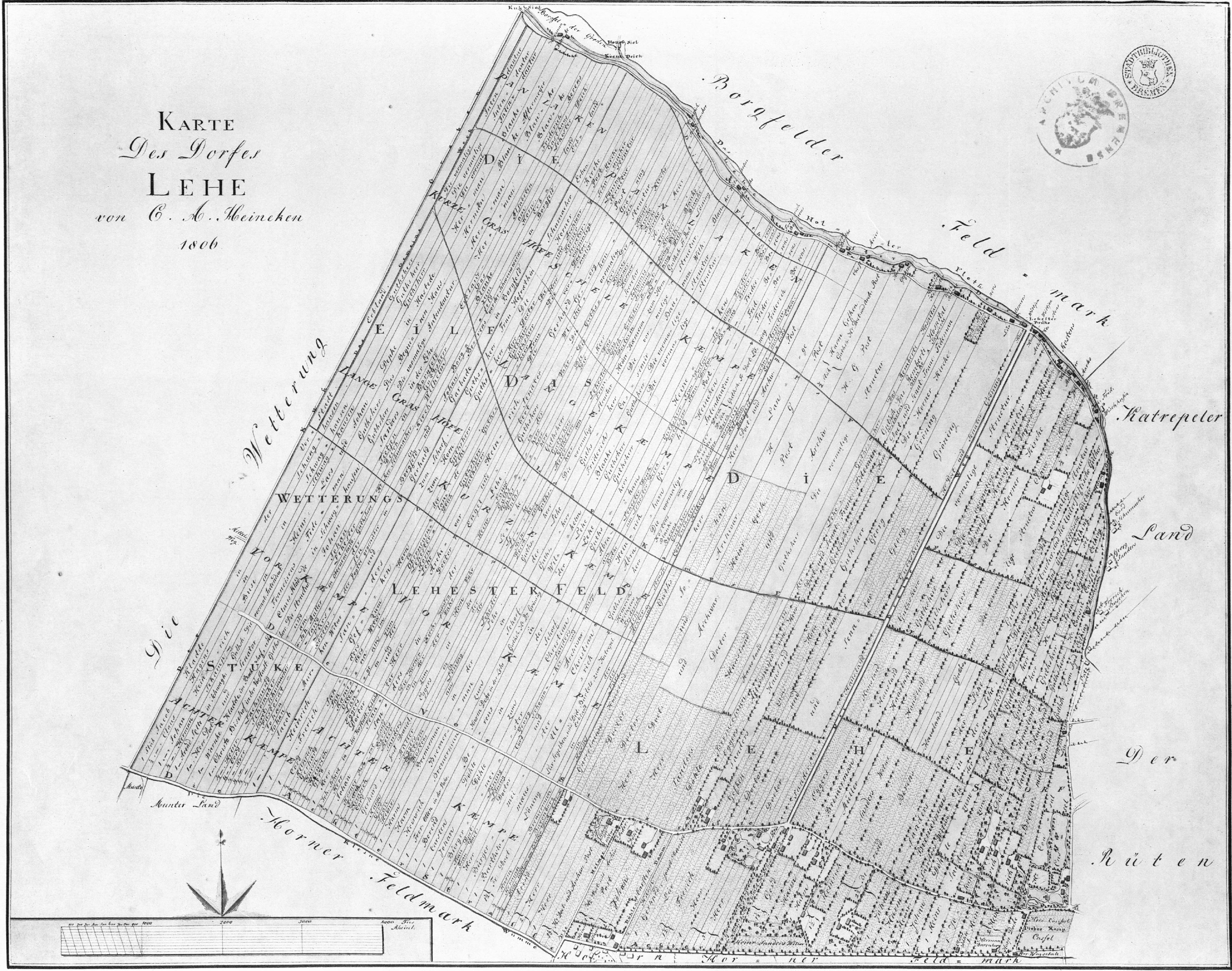 Original title: Map of Lehe village, by C. A. Heineken 1806